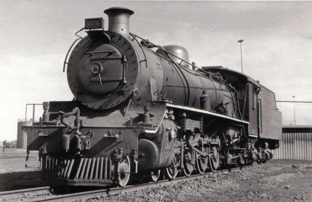 Class 19A no. 685 (4-8-2) Location: De Aar